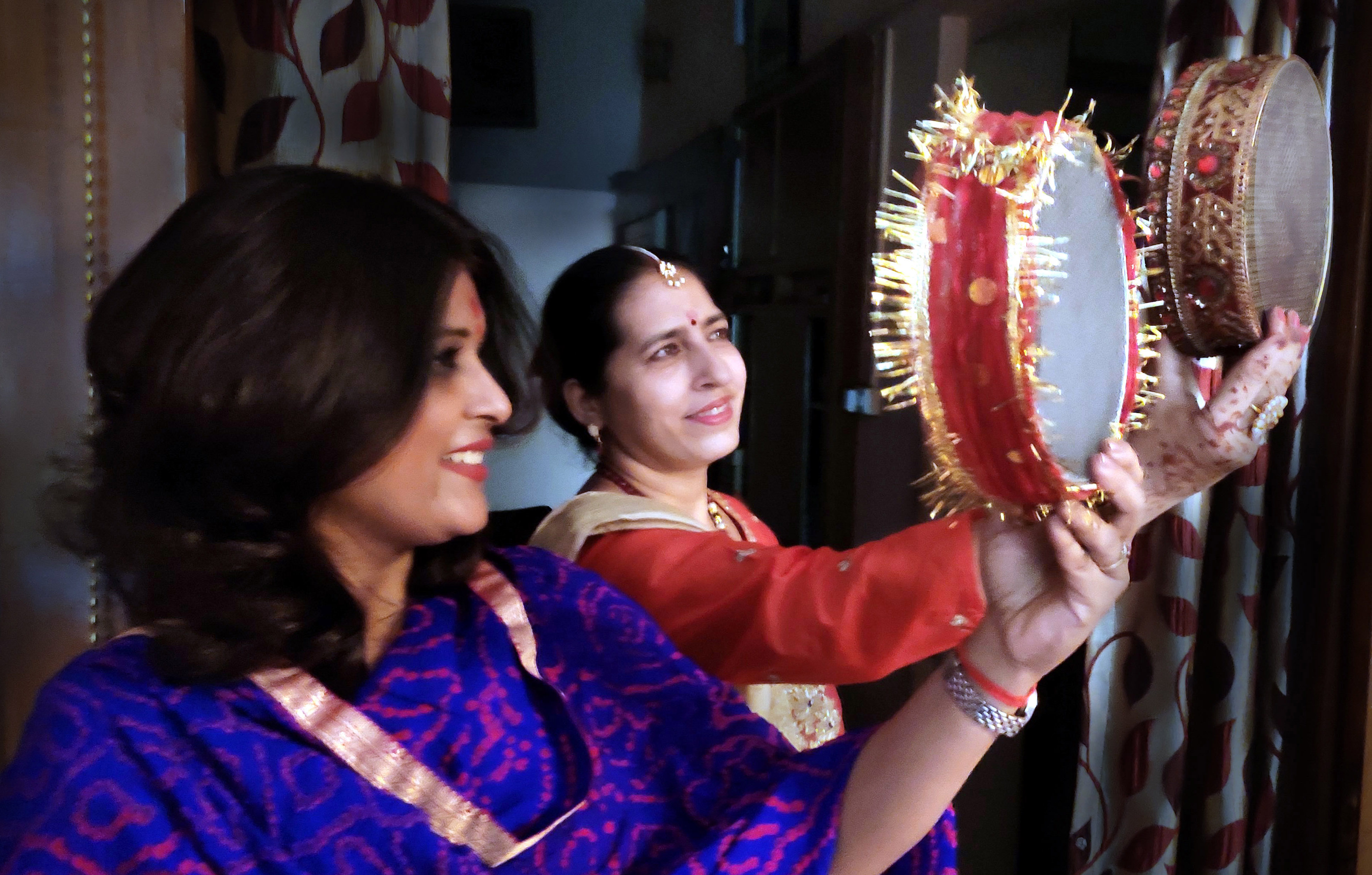 After a day long fasting of Karva Chauth, suhagins (married women) viewing the moon through the sieve. Towards the wishes of long and healthy life of their beloved husband, women used to keep the entire day fast and prays as per their traditions. By the end of the day the fasting women conclude the ritual while having the first view of fresh moon. This ritual is a part of their annual tradition among hindu married women.